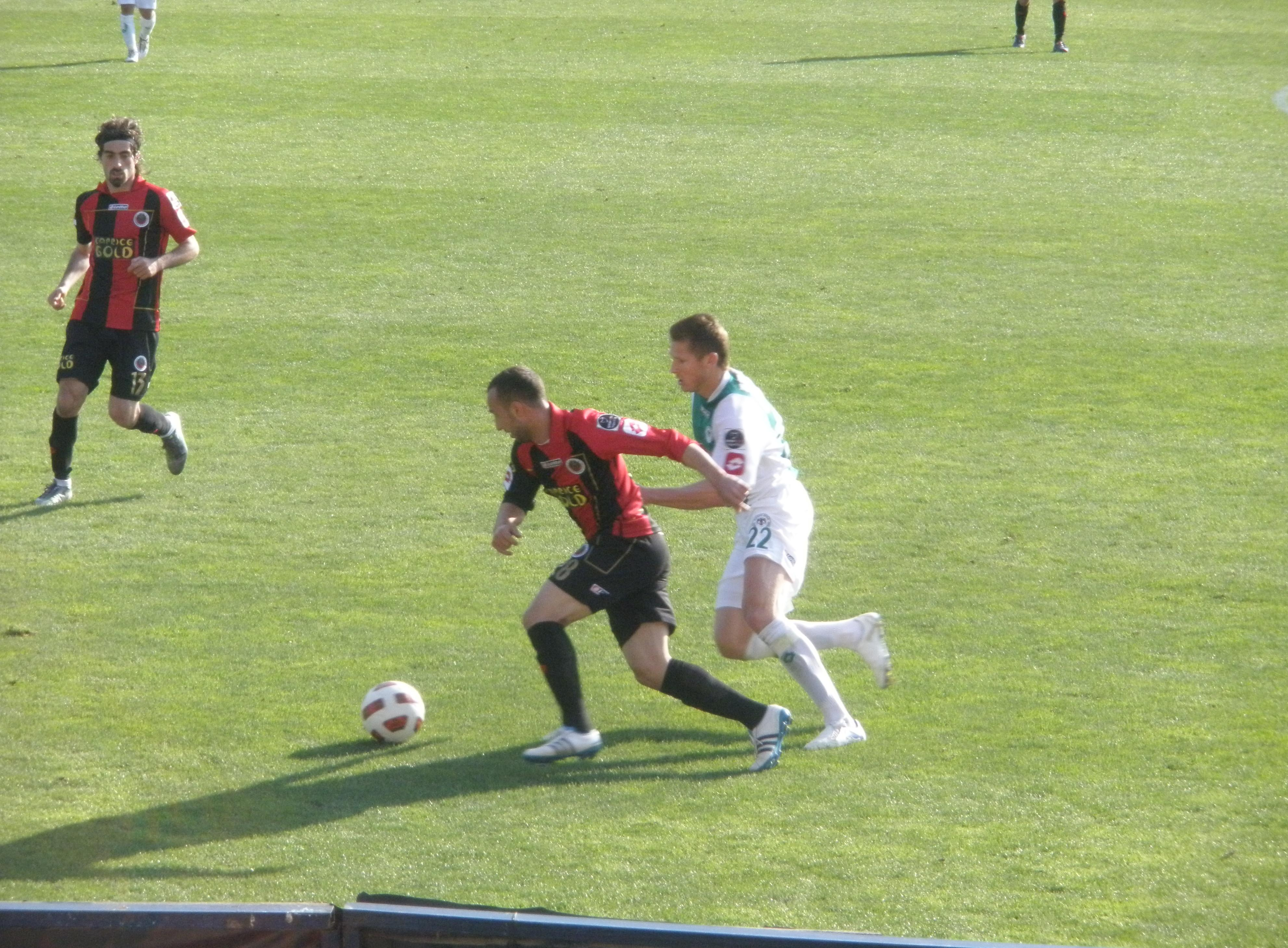 Turkish Süper Lig Gençlerbirliği 2-1 Konyaspor match